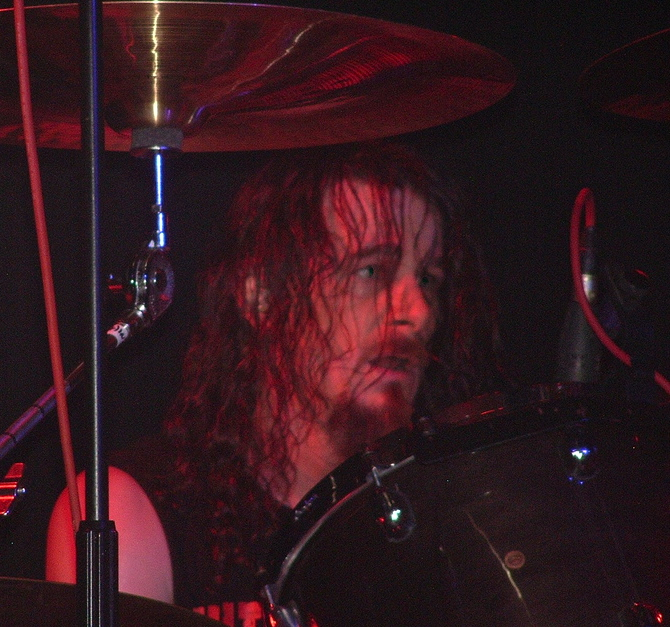 Paul Bostaph playing with Exodus in Bradford, Rio 2006